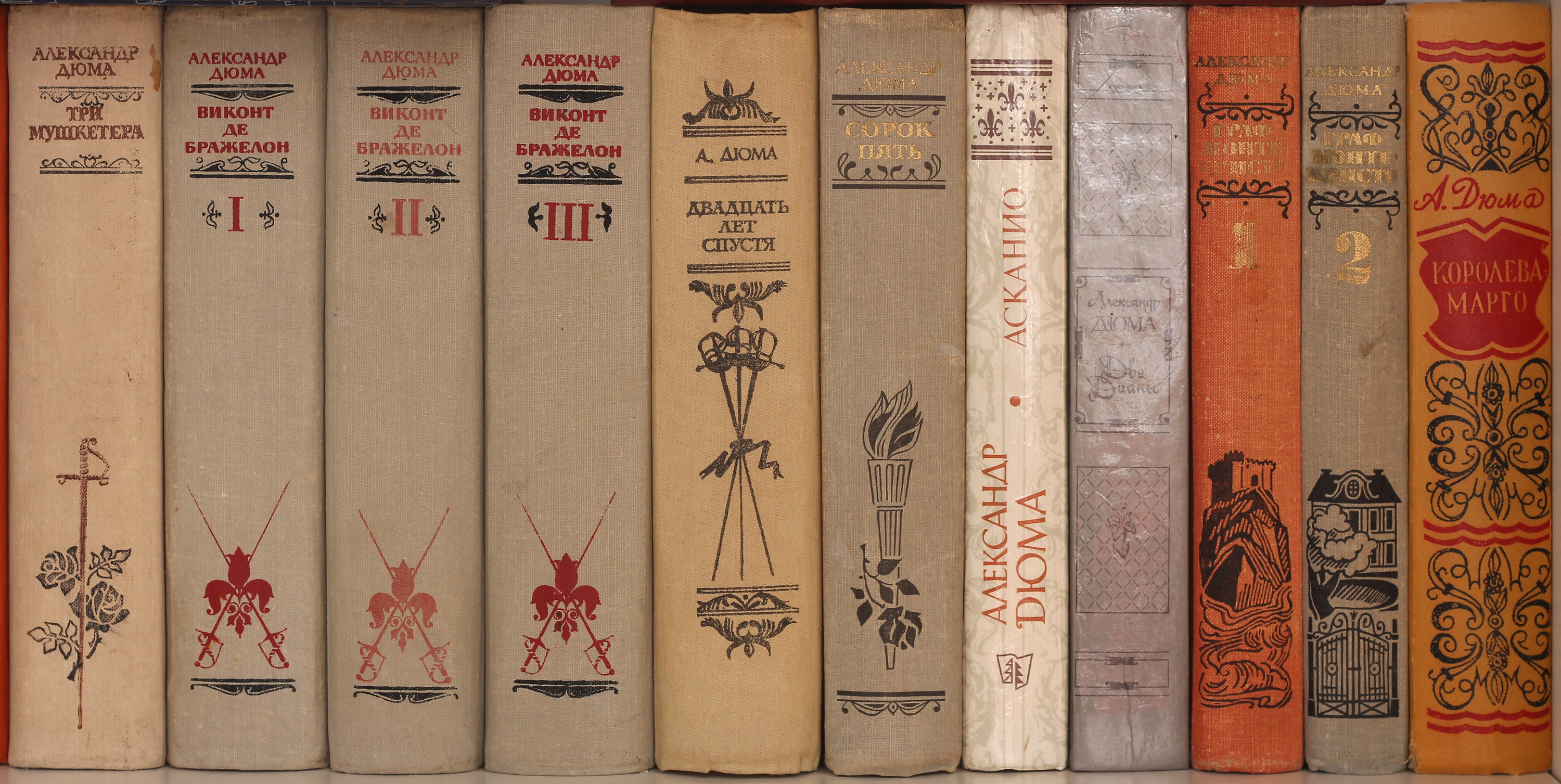 Alexandre Dumas - Russian books